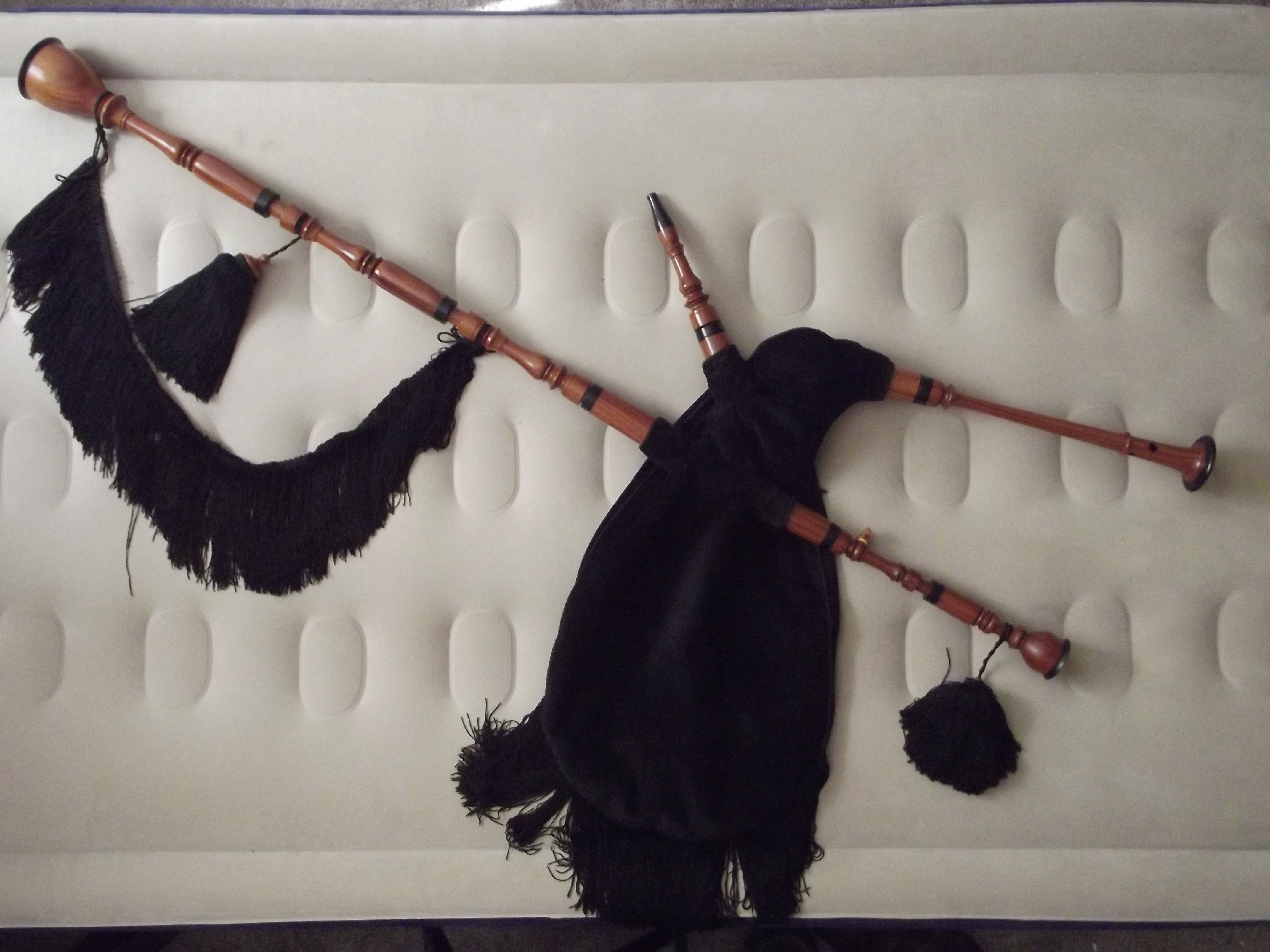 Galician Bagpipes with tenor drone ('ronqueta').